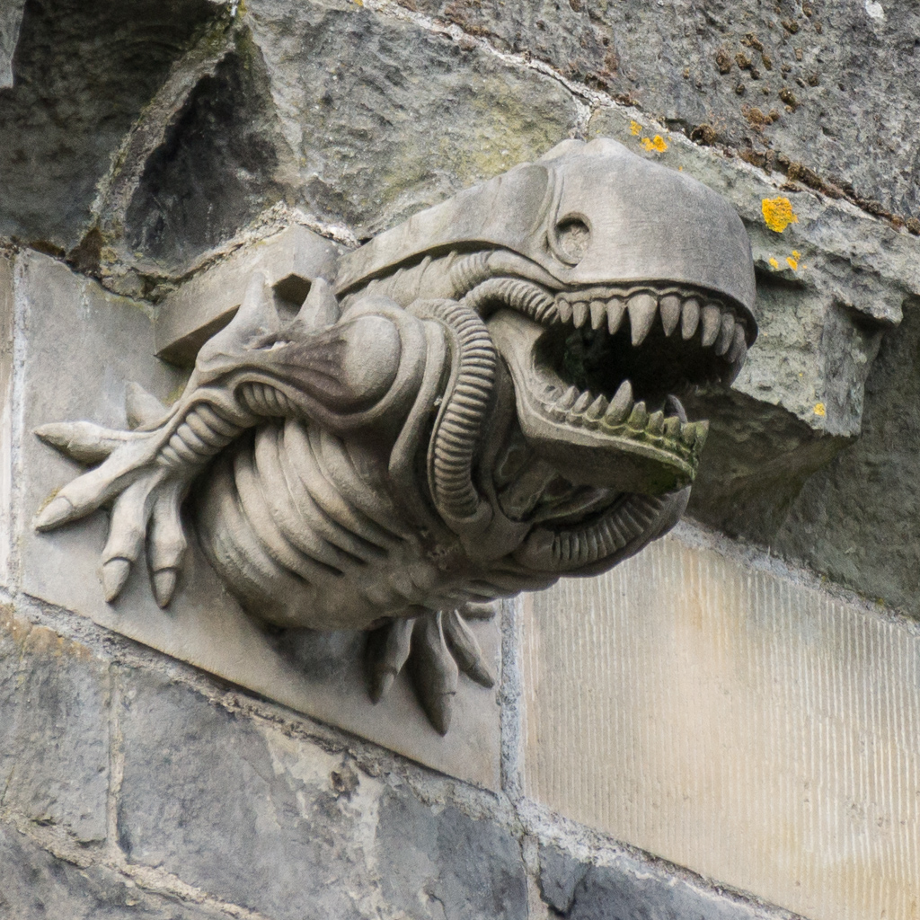 Paisley Abbey gargoyle 10. Replacement from 1991. "Alien".